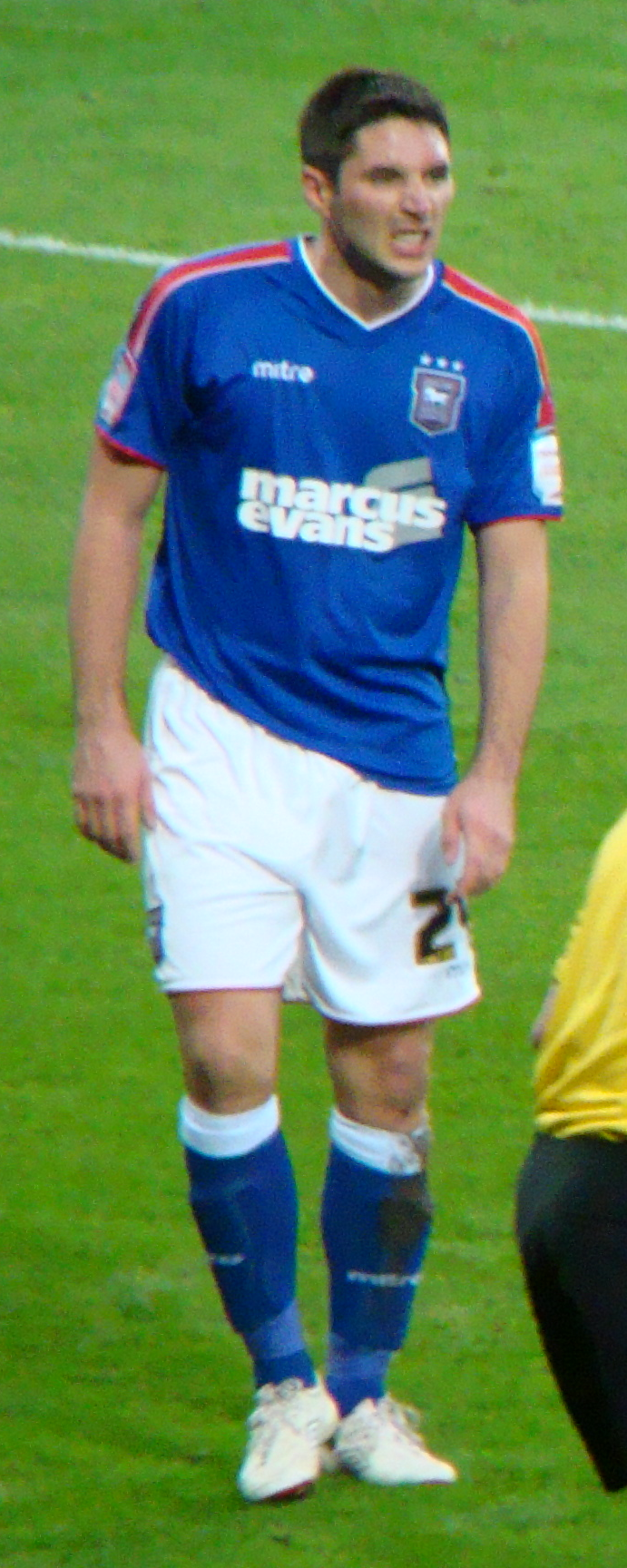 Bradley Orr. Image cropped from original at flickr.